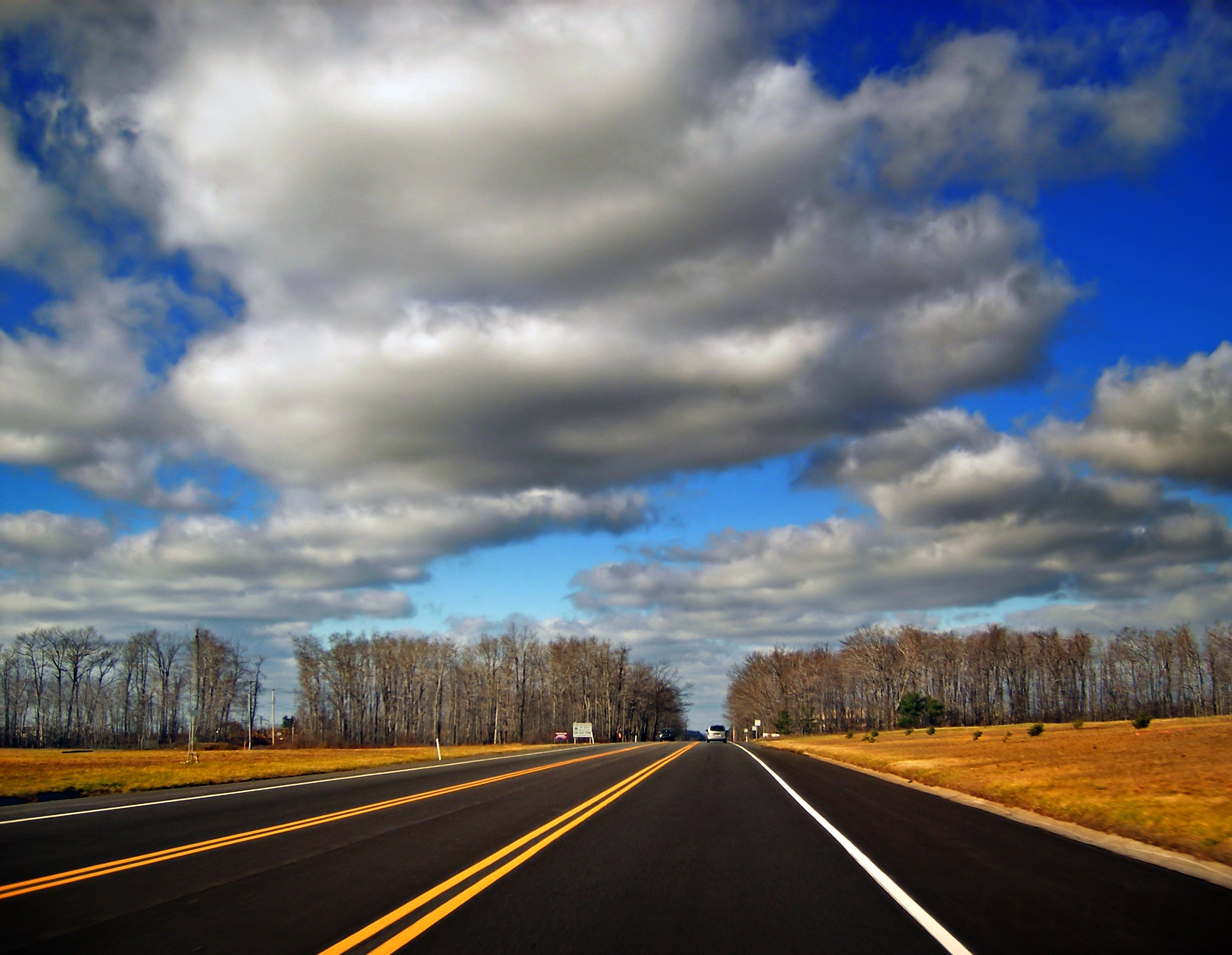 PA Route 611 north of Mount Pocono, Monroe County.